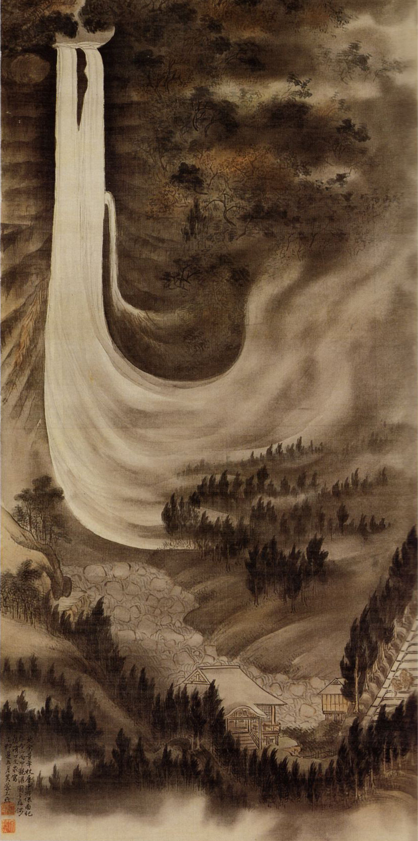 Great Nachi waterfall in storm ;hanging scroll,colors on silk 絹本着色